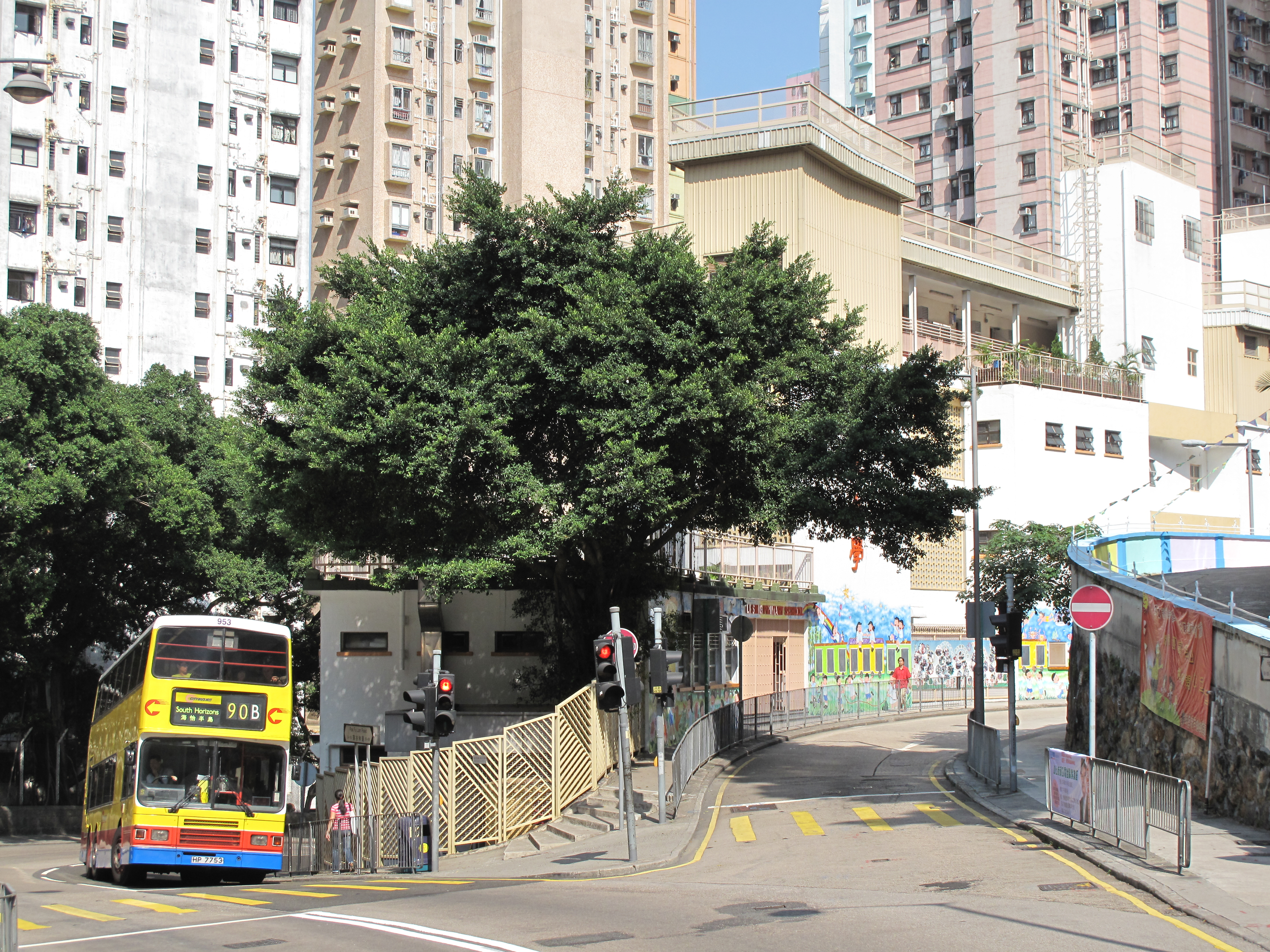 Photo of Li Sing Primary School